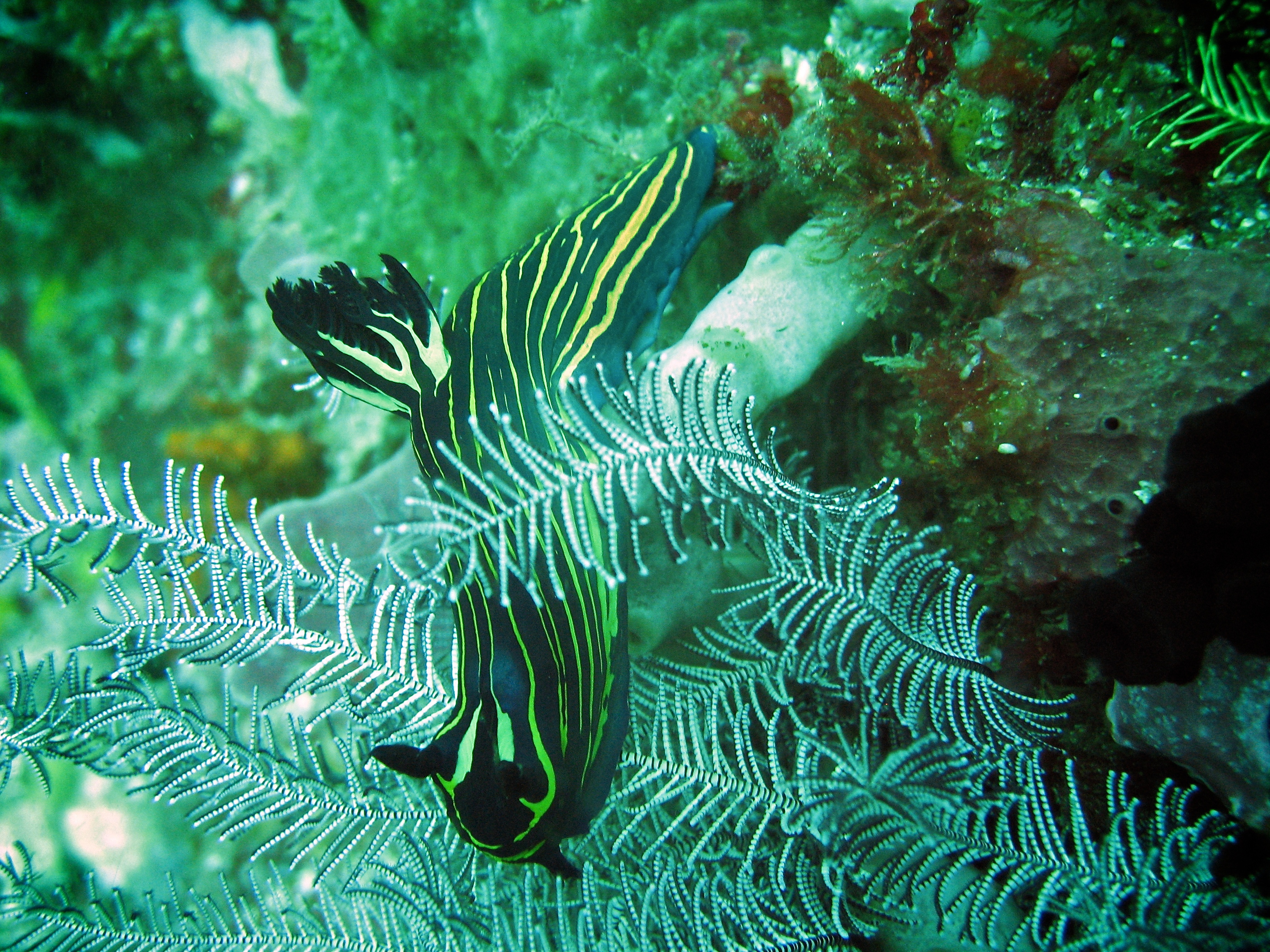 Roboastra luteolineata taken at 'Cannibal Rock' divesite, Komodo, Indonesia